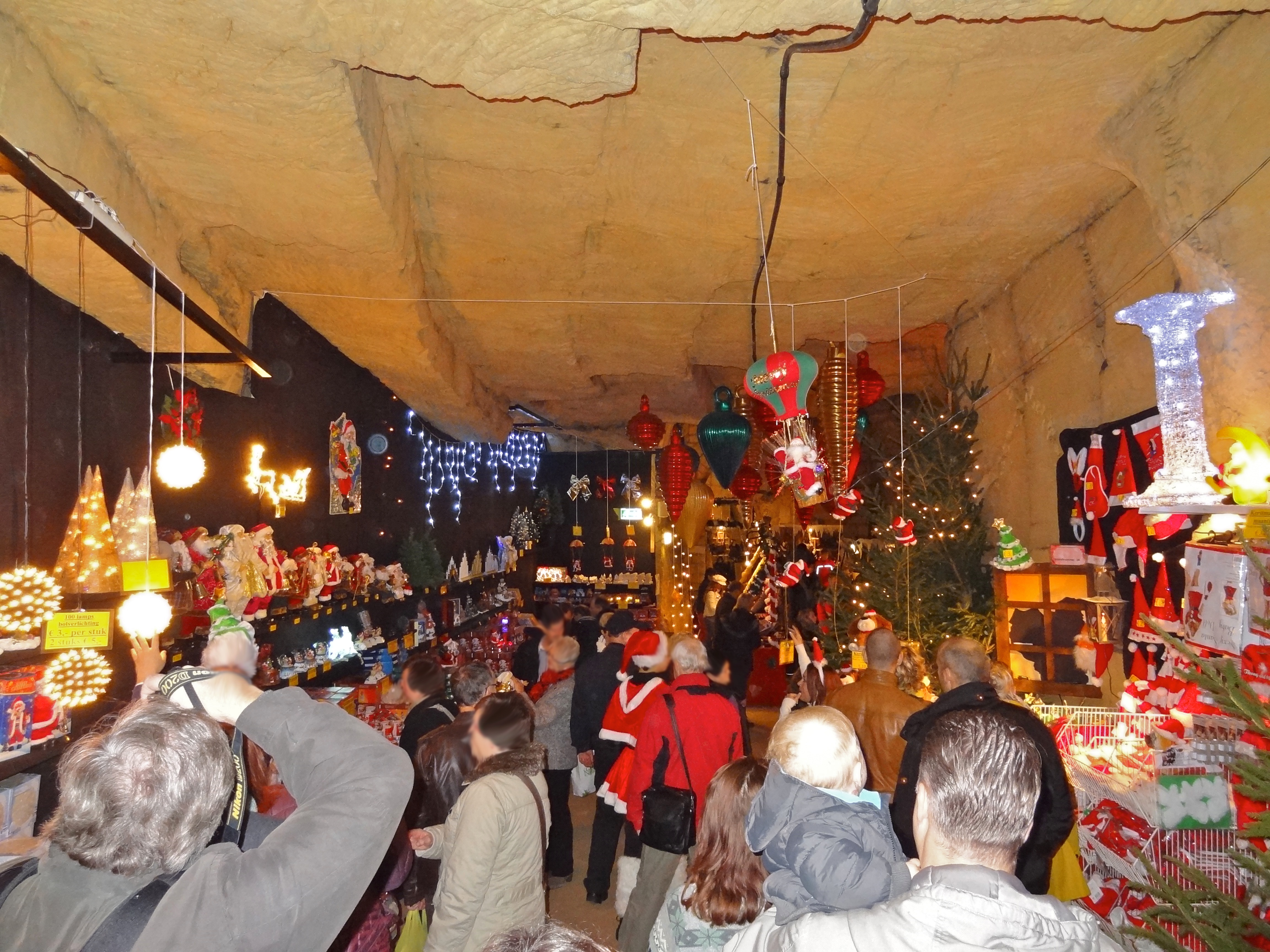 Valkenburg - Fluweelengrot - Christmas market